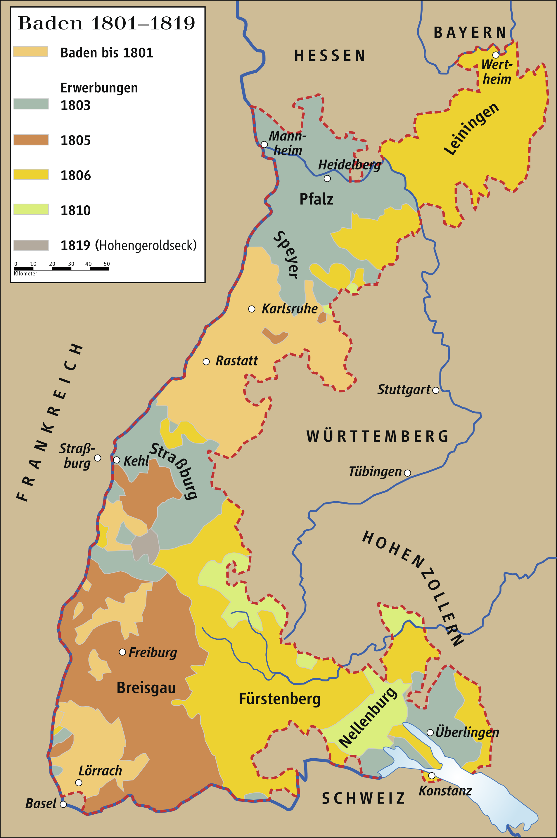 Baden Anfang des 19. Jahrhunderts/Badenia at the beginning of the 19th century